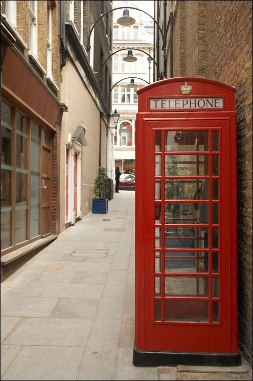 Like most such boxes in central London, this is a recent 'heritage' installation using a recycled unit. There are nowadays far more red boxes in some areas than there was originally. Photo taken at Lancashire Court, Mayfair, London W1S 1EY. Looking east-northeast towards New Bond Street.